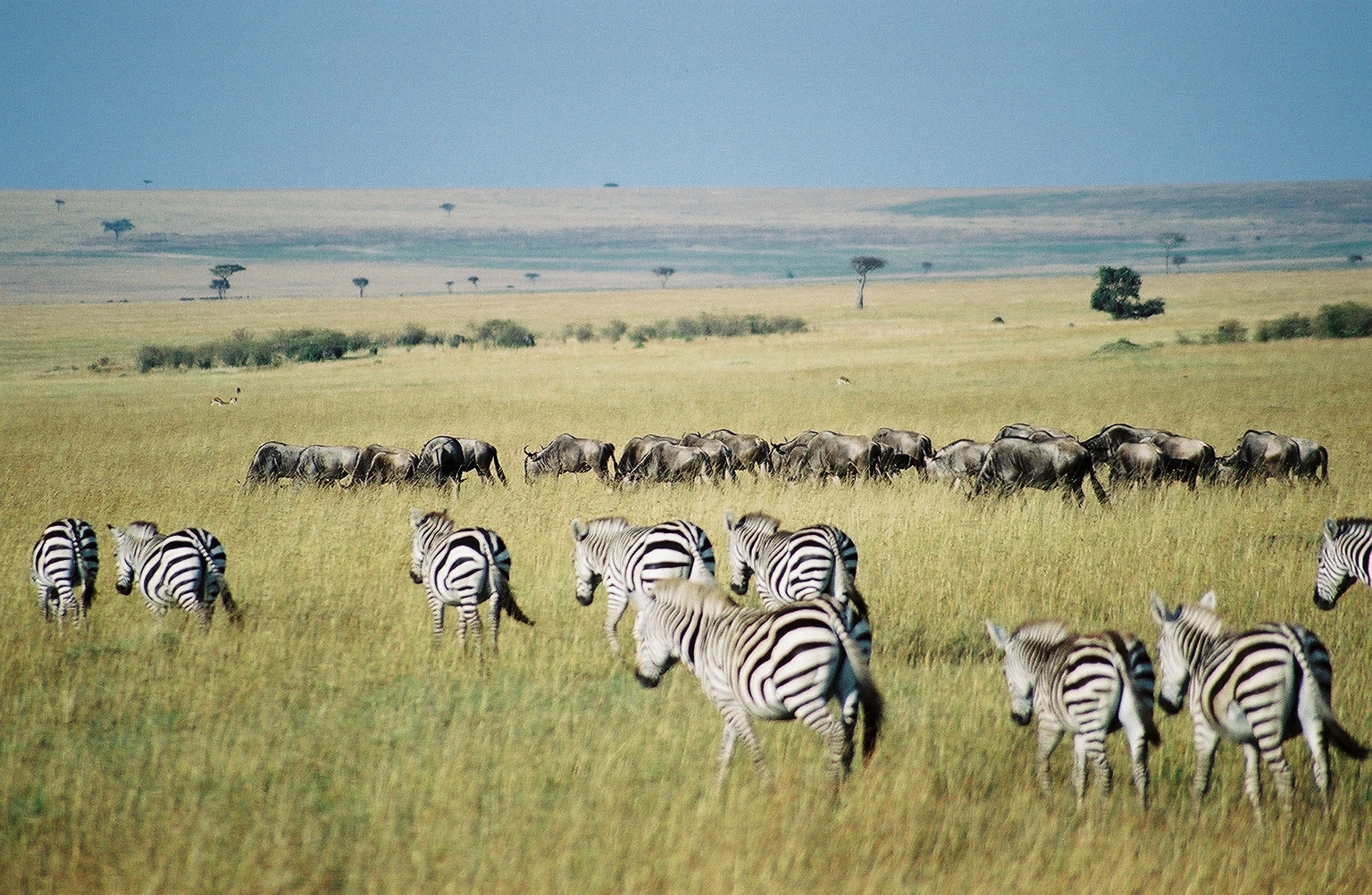 Gnus and zebras in the Maasai Mara park reserve in Kenya. Wildebeest and zebra migration in Masai Mara.